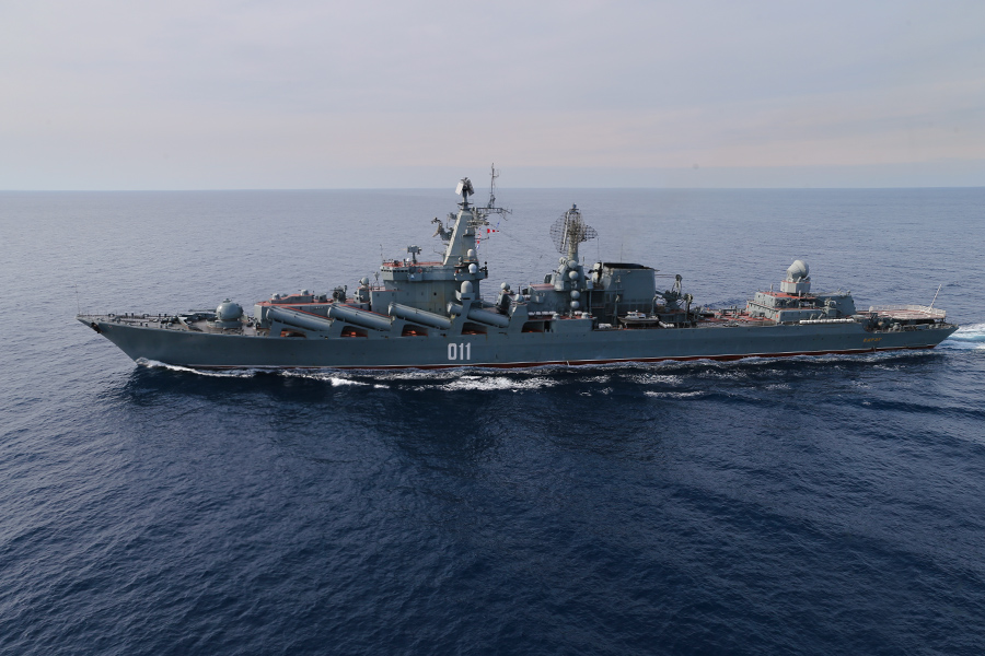 Permanent group of the Russian Navy in the Mediterranean Sea provides air defence in Syria